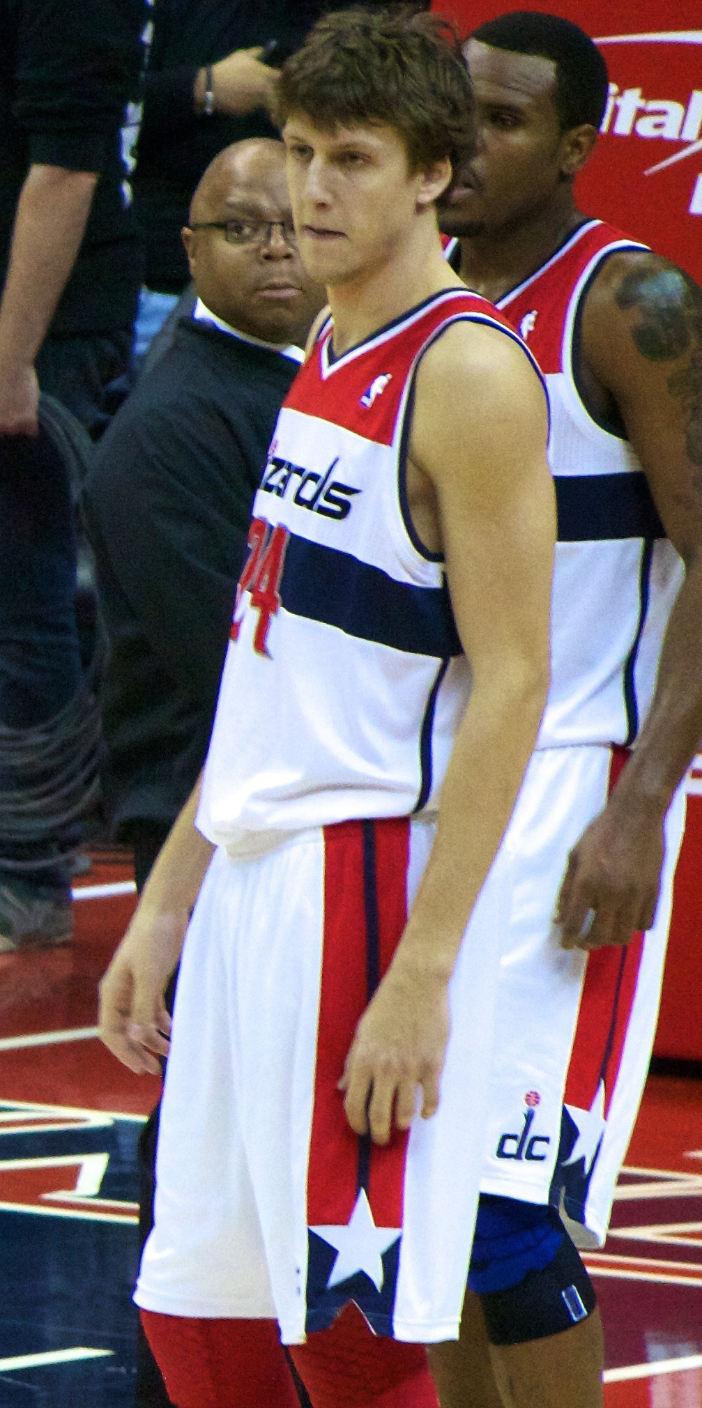 From left to right, Jordan Crawford, Shelvin Mack, Chris Singleton, Jan Vesely, Trevor Booker.